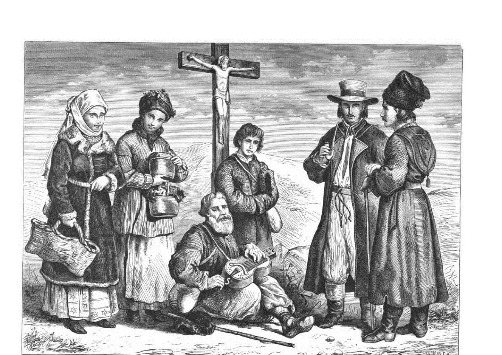 Rusyns Русини с. Скалат та лірник , Тернопільського повіту. (Подоляни)